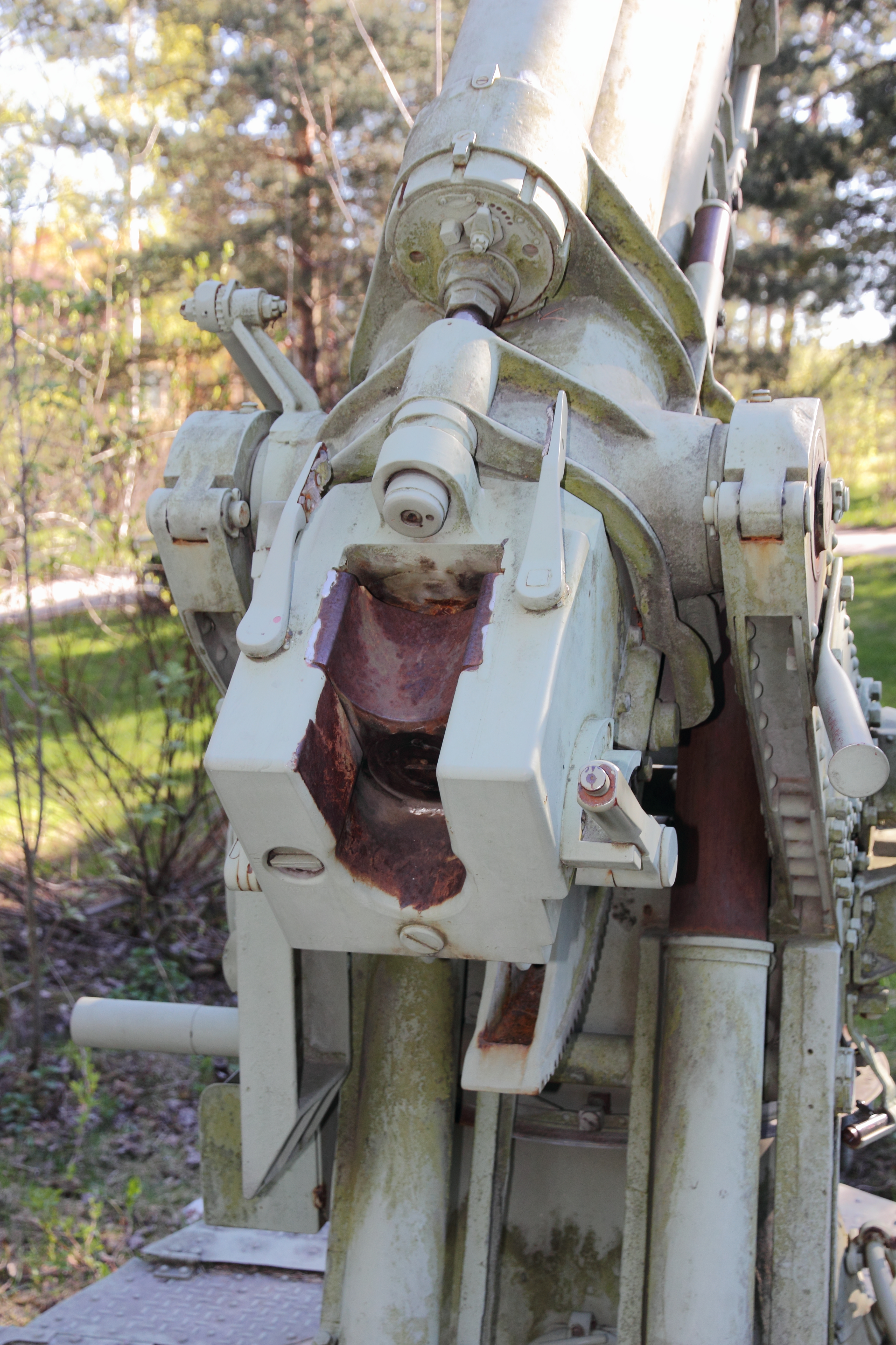 Breech of captured Soviet 76 mm anti-aircraft cannon model 1931 in Tuulimäki, Espoo. Memorial of the heavy anti-aircraft battery 32 "Länsi", equipped with four such cannons in 1942-1944 at Tykkimäki in Tapiola.